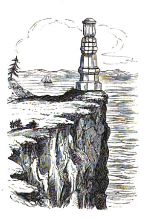 The fourth of the four Yuan and Ming Dynasty monuments on the Tyr cliff (Khabarovsk Krai), seen ca. 1854-1860 by G.M.Permikin, and described by E.G.Ravenstein (based on the Russians' accounts) in his book as follows: "And lastly, about three hundred and fifty yards from the third of these monuments, stands upon a narrow promontory an octagon column, larger than the others. On the plateau, a short distance behind the monuments, are to be seen the remains of ancient walls, nine to ten feet high..."